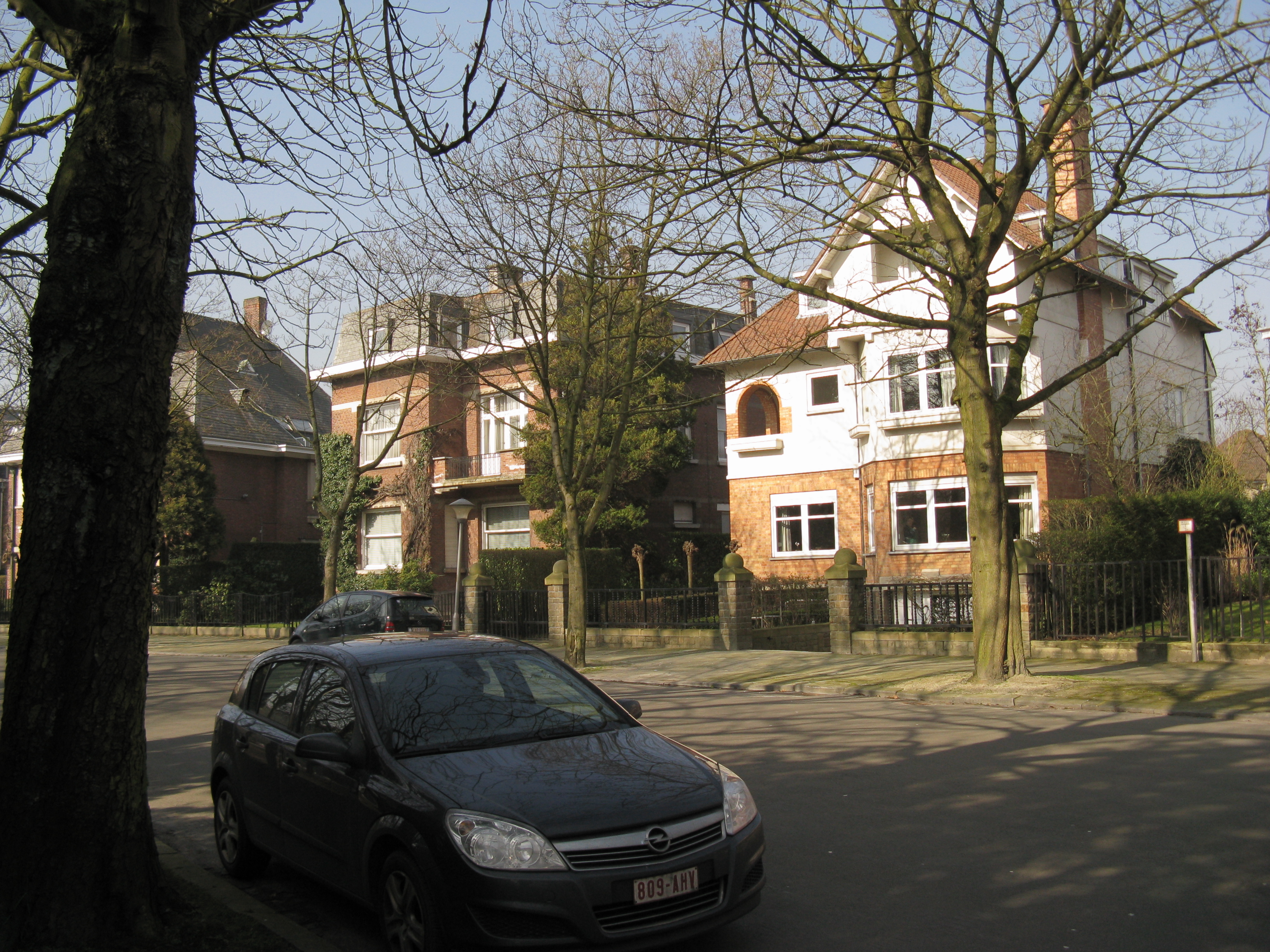 Houses in the "Millionare's Quarter" in Ghent.